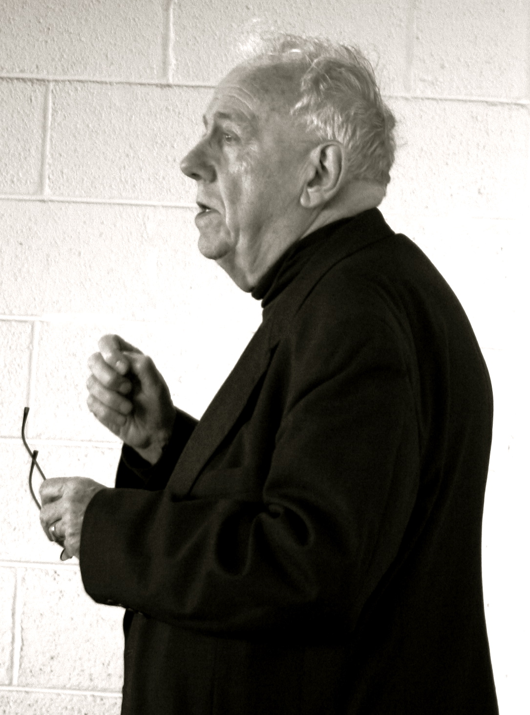 Alasdair MacIntyre at The International Society for MacIntyrean Enquiry conference held at the University College Dublin, March 9, 2009.